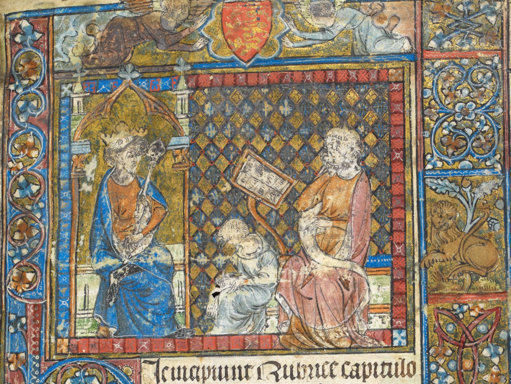 Detail from MS 47680 (first page), illustration depicting Alexander and Aristotle.